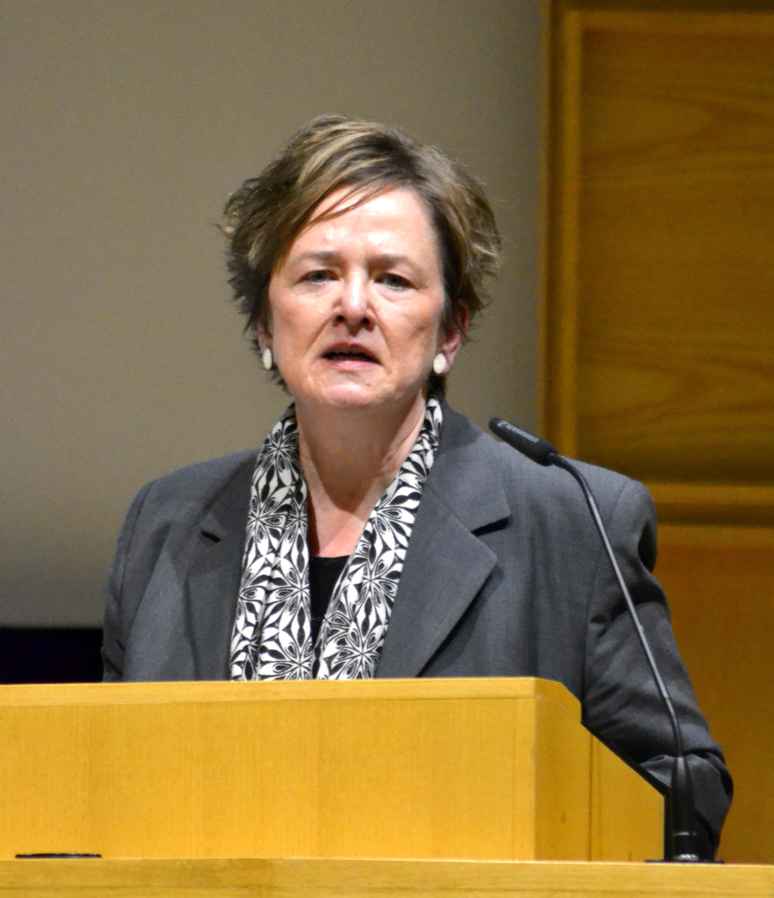 Conference "Die Zukunft der Wissensspeicher: Forschen, Sammeln und Vermitteln im 21. Jahrhundert" ("Future of the knowledge stores") of the University of Konstanz with the Gerda Henkel Stiftung at the Nordrhein-Westfälischen Akademie der Wissenschaften und Künste in Düsseldorf on 5th and 6th of March 2015.